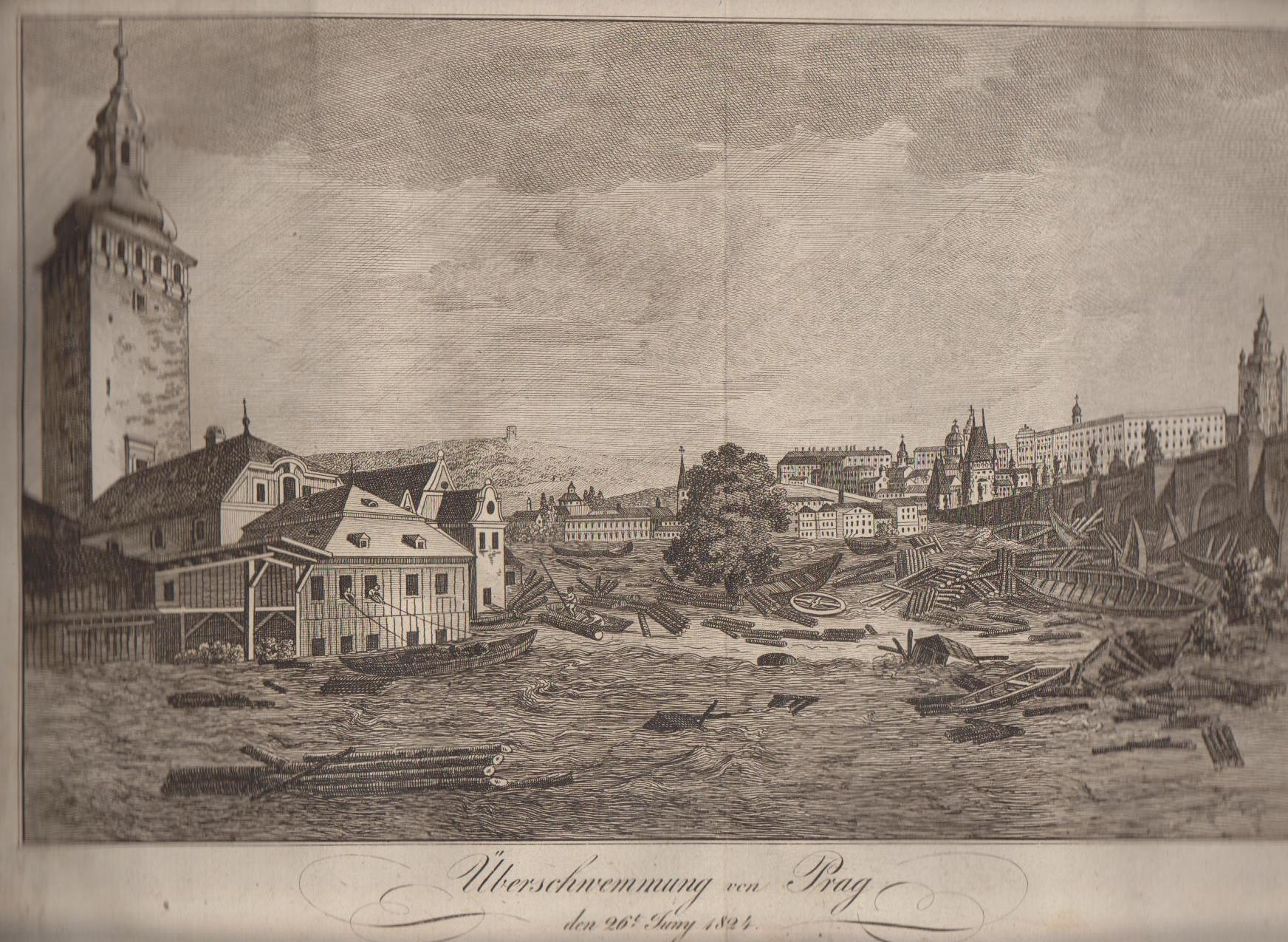 The Vltava river flooding Prague on 26 June 1824, view from near Charles' Bridge. Illustration in a yearbook on notable objects and events, published in Vienna.